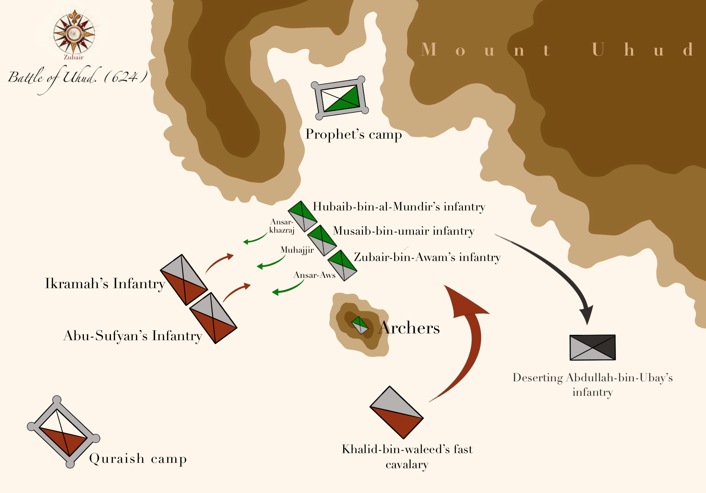 Troop movements,infantry,cavalry and fast cavalry have been added.